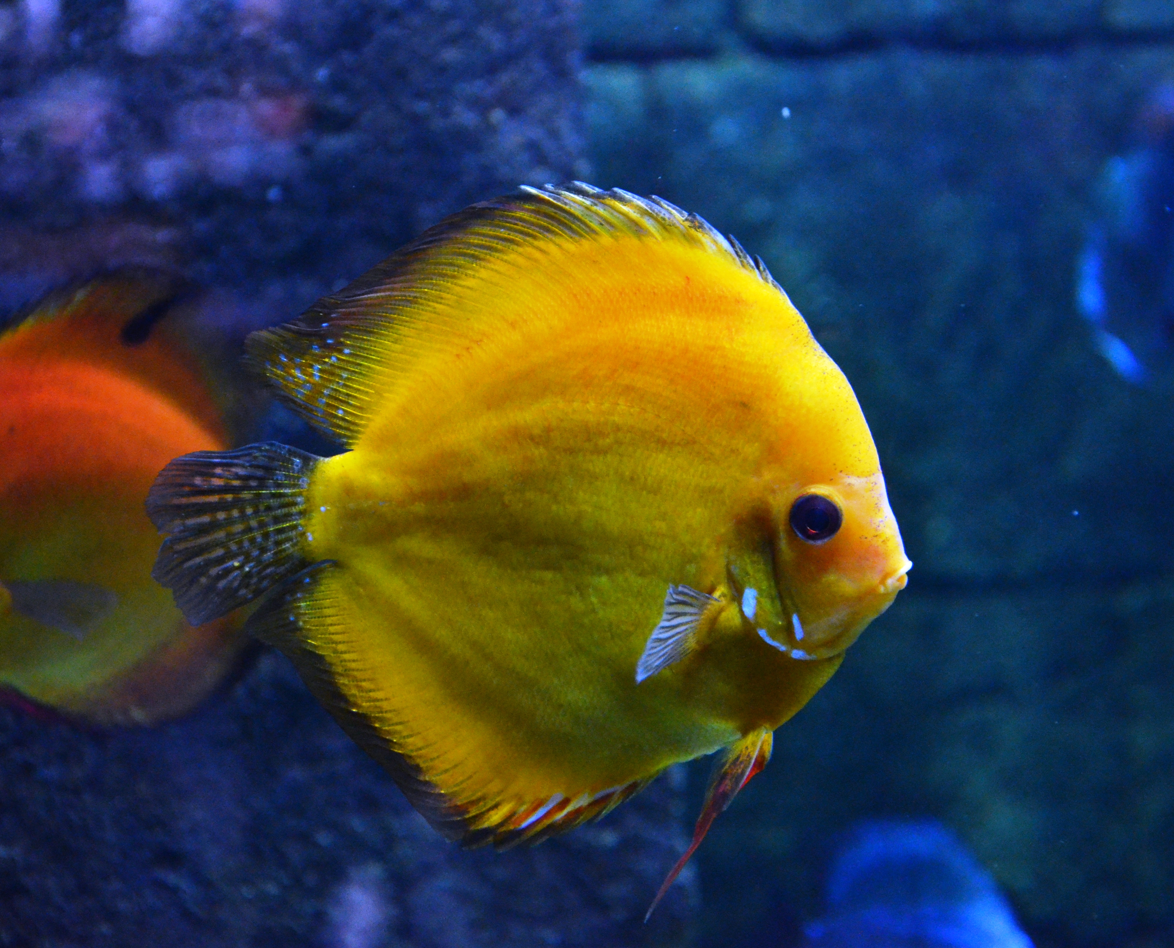 Photo taken at Underwater World, Langkawi Malaysia